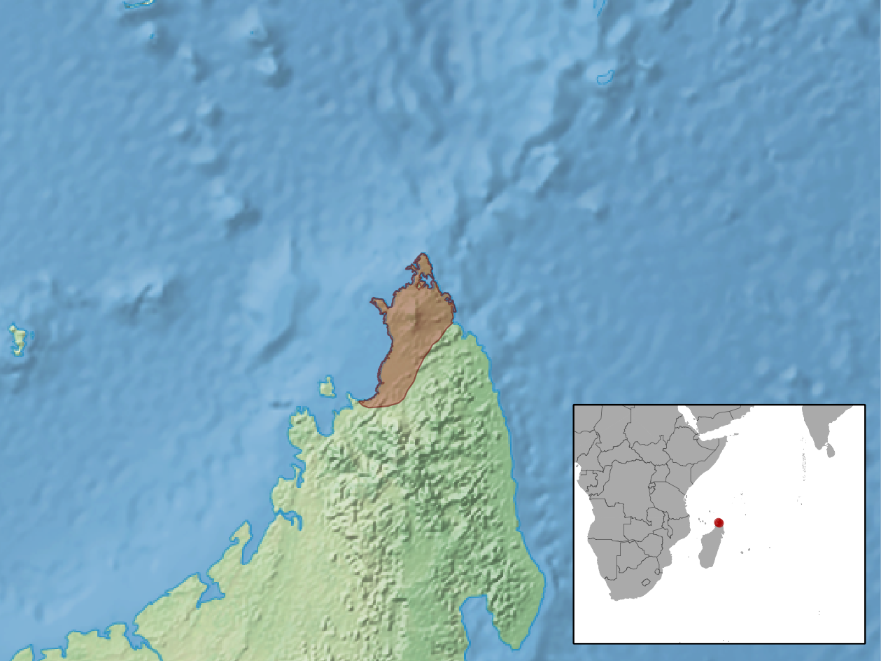 geographic distribution Amphiglossus ardouini